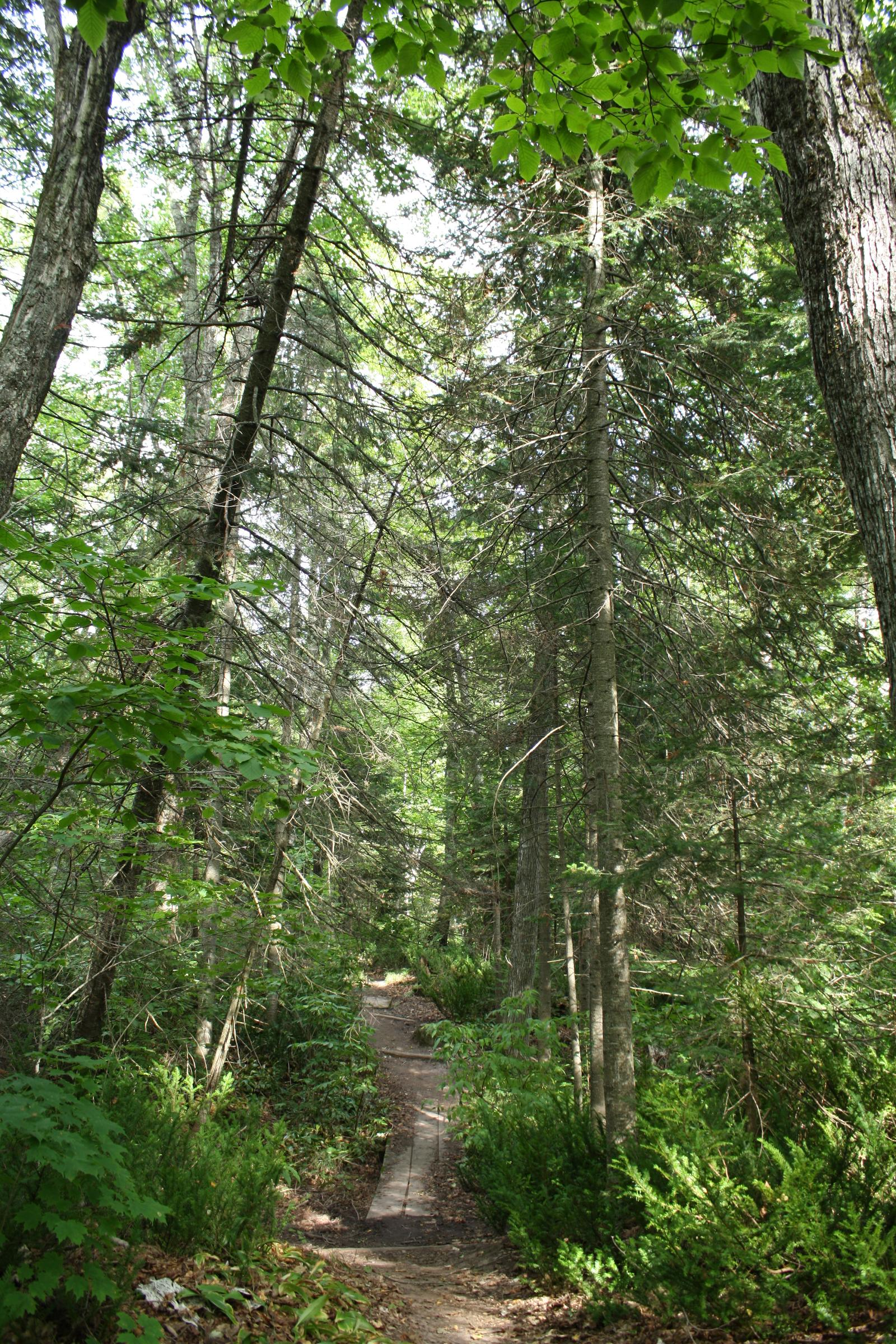 Raspberry Island / Gaylord Nelson Wilderness